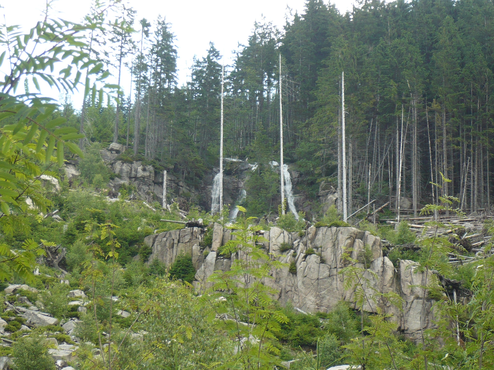 Watterfall Pudlavsky in Krkonose